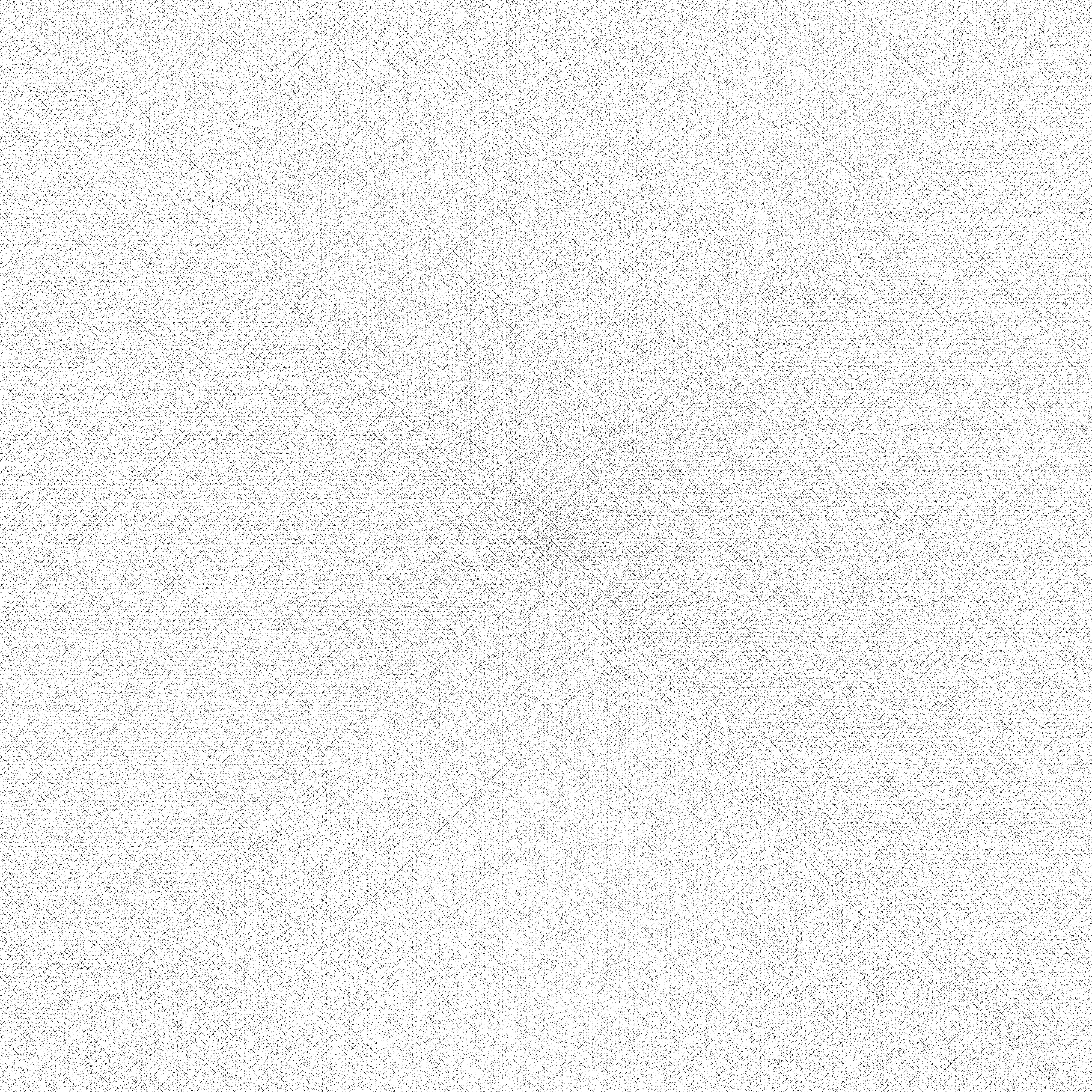 An Ulam Spiral for numbers from 1 to 16008001. Note that in this picture, the number 1 is coloured black even though it is, by convention, not prime. Also, note that the image is rotated by 90 degrees clockwise when compared with this picture.